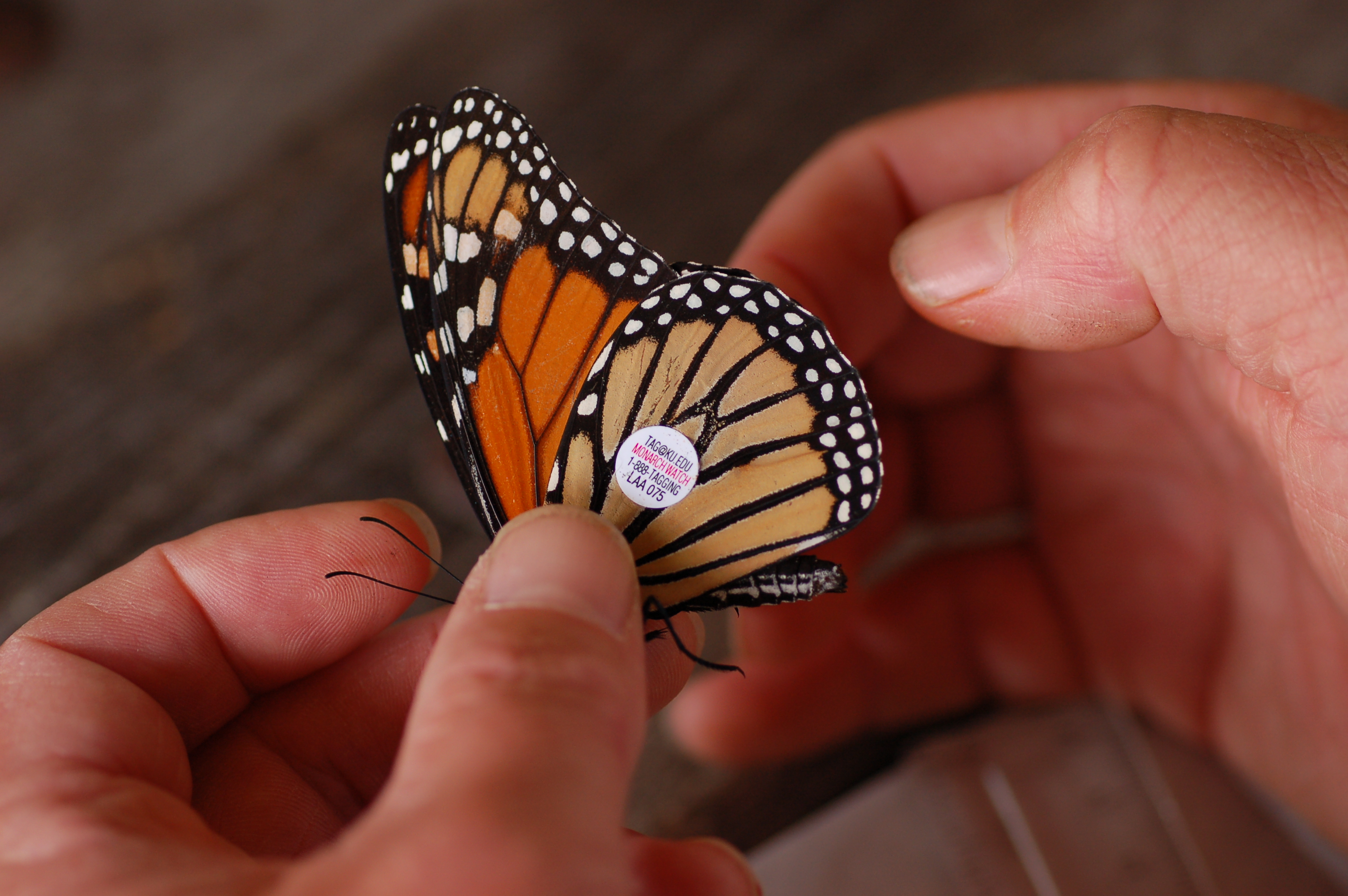 Photograph of the Monarch Butterflyen (Danaus plexippus en ) with an identification tag applied on a spot that had its scales rubbed off. The butterfly was part of the Cape May Bird Observatory's program of tagging in Cape May, New Jersey. Photo taken at the Cape May Point State Park.